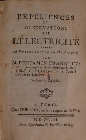 This French edition, authorized by Franklin, consists of letters translated by Francois Dalibard, who repeated the experiments of Philadelphia to show the electric nature of lightning. The Experiments and Observations on Electricity are the major scientific work of Franklin and one of the most important physics texts of the eighteenth century. The American physicist develops his theory of the unique fluid which enables him to prove, through his experiments on the Leyden bottle, lightning, lightning rods and the kite, the positive and negative nature of an electric charge, That the electrical current consists of induced charges. The folded board is, among others, the famous bottle of Leyden.